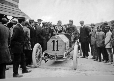 Entry #11 at Targa Florio on Sicilia on 14 May 1911 was Ugo Ronzoni in A.L.F.A 24 HP[1] He wore out and gave up in the third round.[2] This was a 24 HP tipo corsa (racing type) and built for this Targa Florio occasion, with 2-seat baquet bodywork, an additional 30-litre fuel tank behind the seats, two spare tyres, and an engine tuned to 45 bhp (34 kW) at 2,400 rpm.[8] Weighing 870 kg (1,918 lb) (as opposed to 1,000 kg (2,205 lb) for a torpedo-bodied standard 24 HP), the car had a top speed of 110 km/h (68 mph).[3]